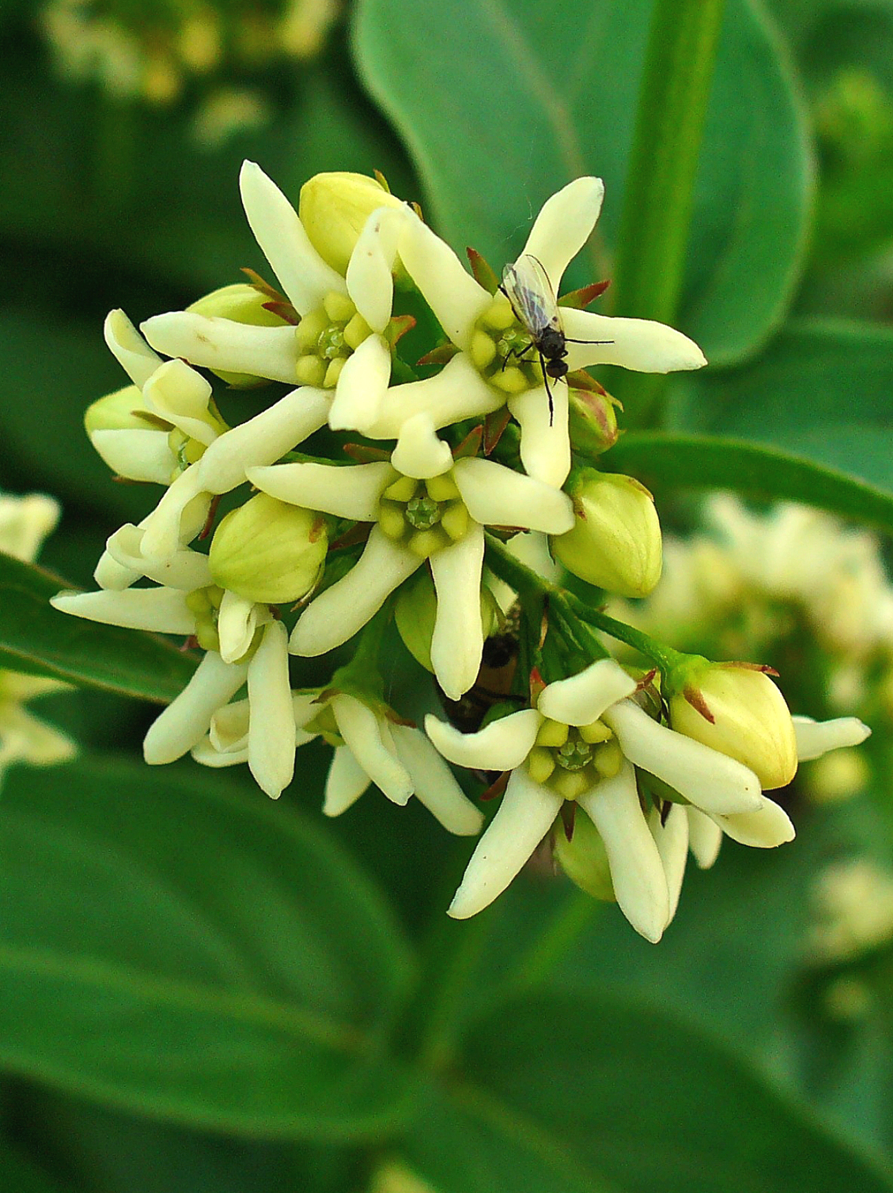 Vincetoxicum hirundinaria, Apocynaceae, White Swallowwort, Poison-rope Swallowwort, Dog Strangling Vine, inflorescence.